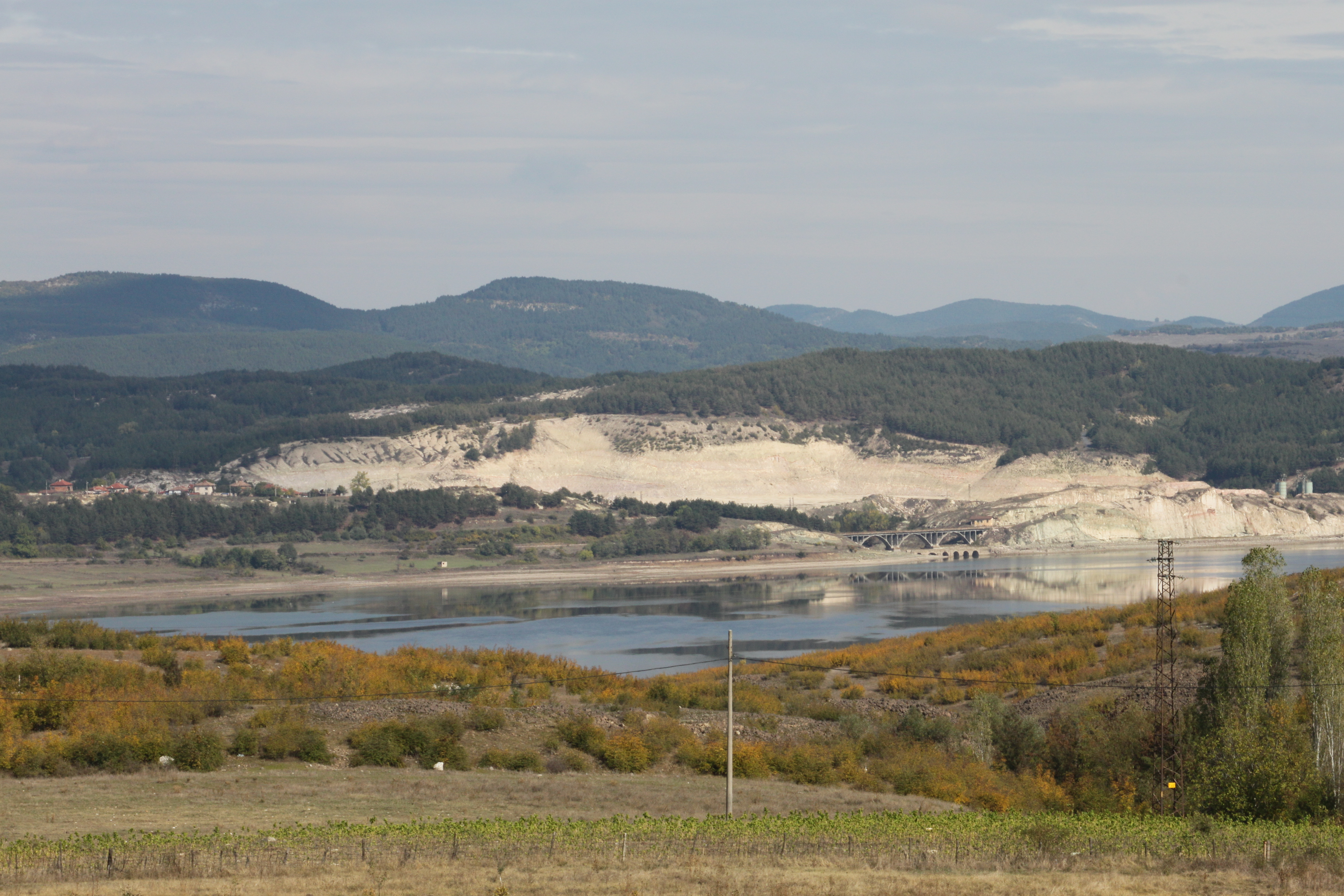 Kardzhali , Bulgaria